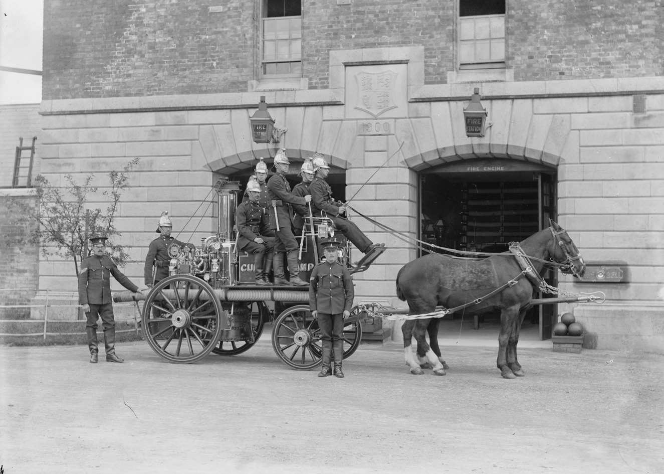 Shiny and gleaming (new?) horse-drawn fire tender at the Curragh Camp, Co. Kildare. The men have FB, presumably for Fire Brigade, on their uniform collars and as an emblem on their gorgeously ornate helmets, and absolutely love the special belt holders for their fire axes. Thanks to Gerry Ward for help with the make of the fire engine! It's Shand, Mason & Co., London. Date: Circa 1902 NLI Ref.: EAS_2467